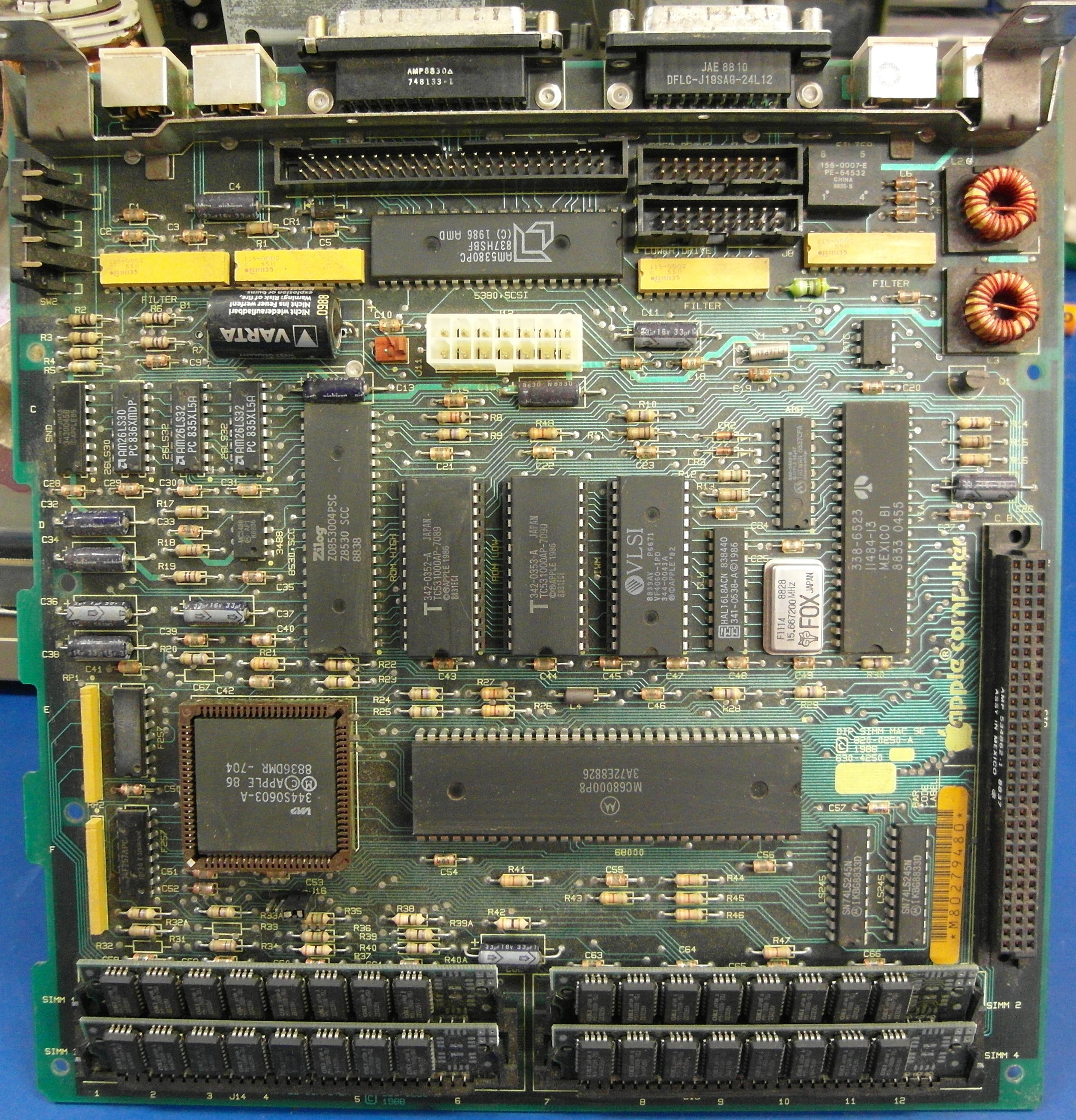 The main PCB of a 1988 vintage Apple Macintosh SE